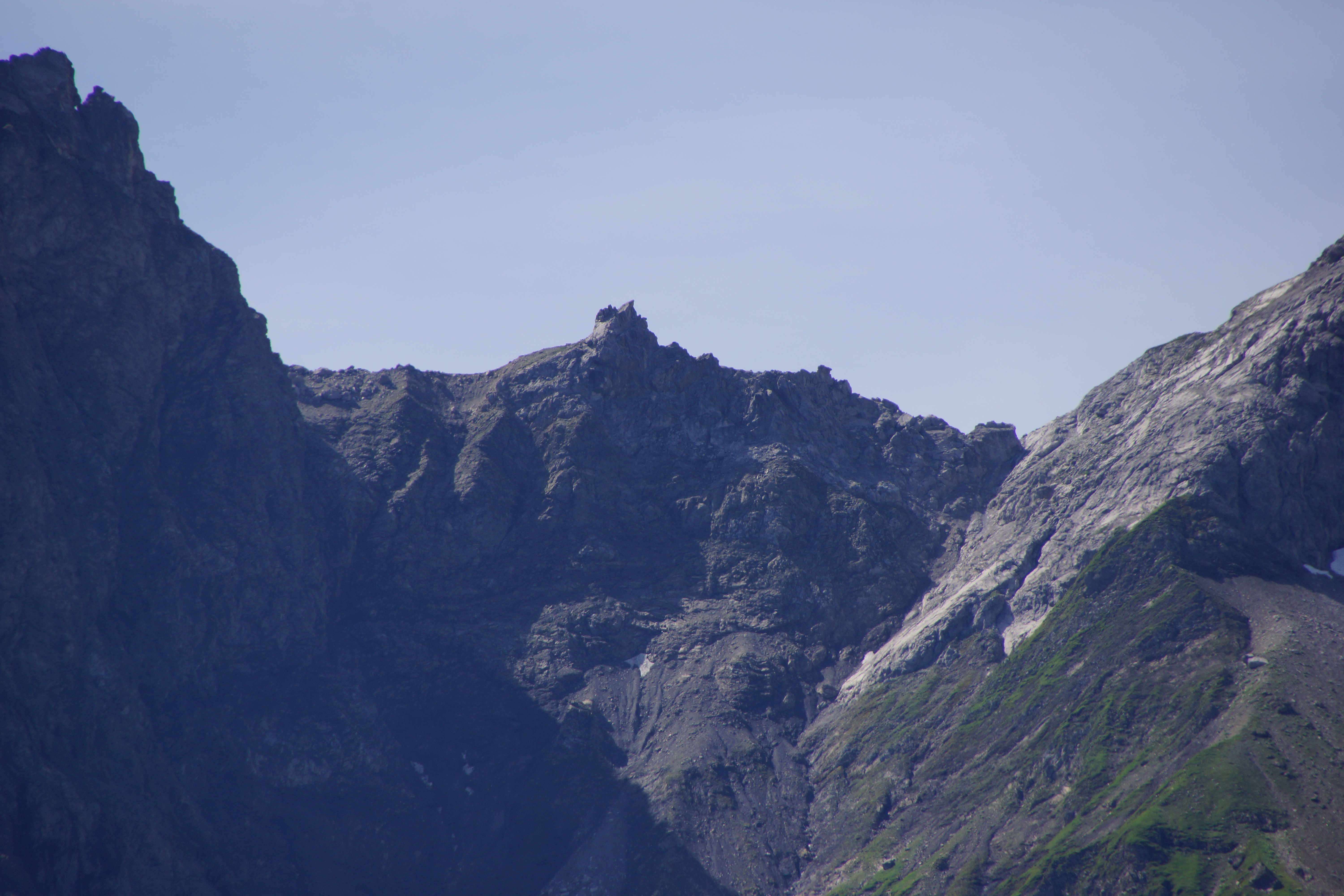 The rock formation Eule near Oberstdorf.